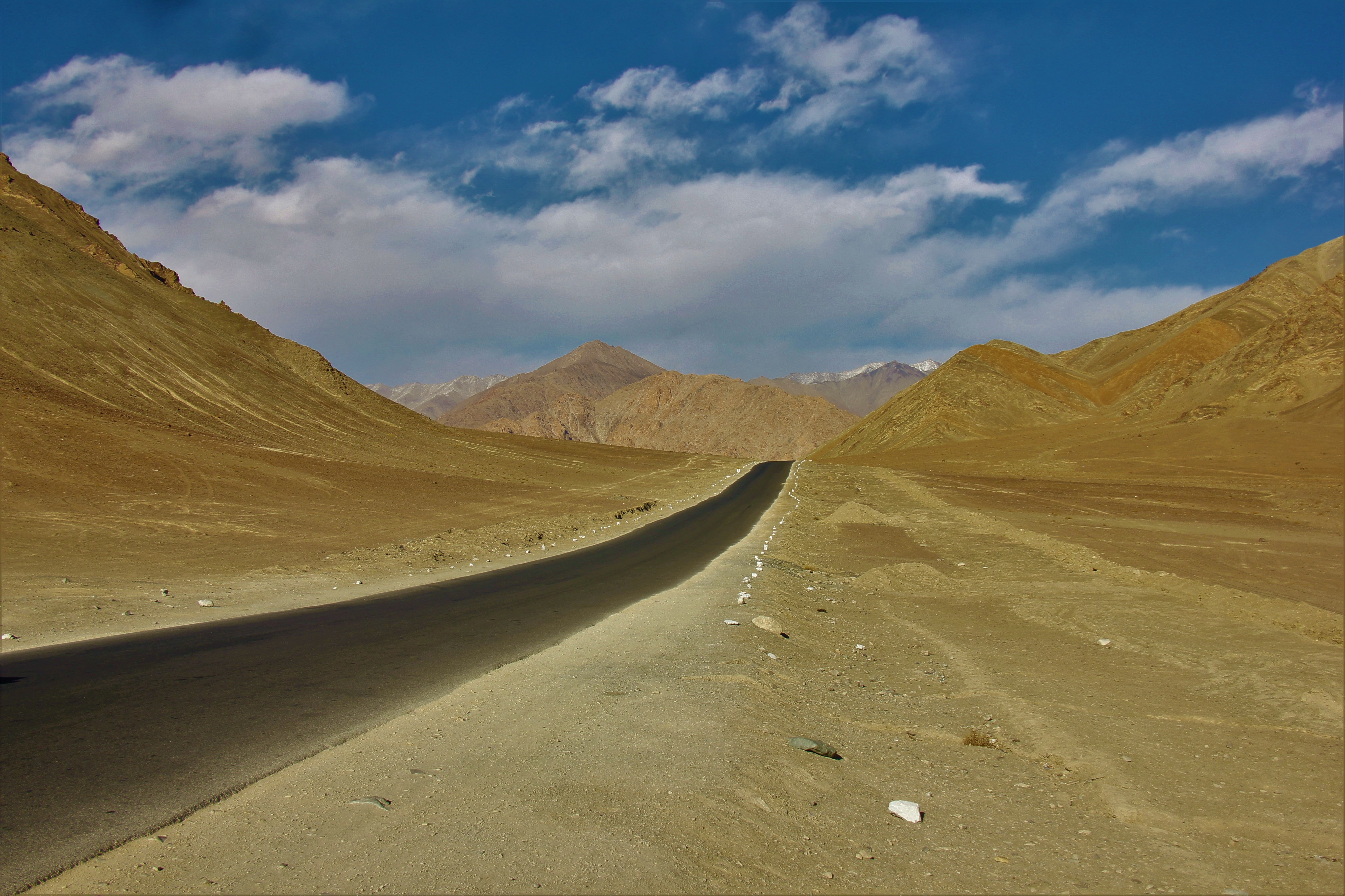 Magnetic Hill in Leh. The road is Srinagar-Leh highway going towards Leh city.